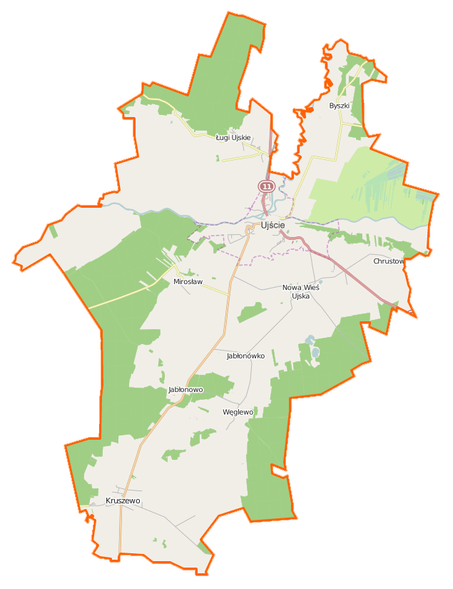 Map of Gmina Ujście, Poland This map of Ujście (gmina) was created from OpenStreetMap project data, collected by the community. This map may be incomplete, and may contain errors. Don't rely solely on it for navigation. Border coordinates53.117916.6014←↕→16.819452.9476